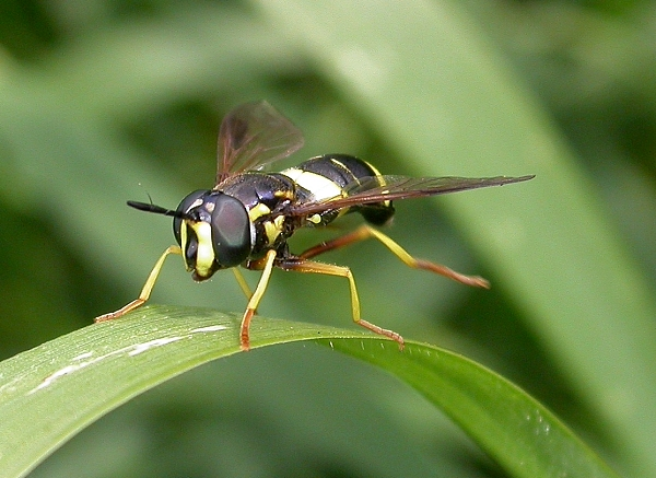 Chrysotoxum bicinctum, Wutachmühle, Wutachschlucht, Schwarzwald, Germany